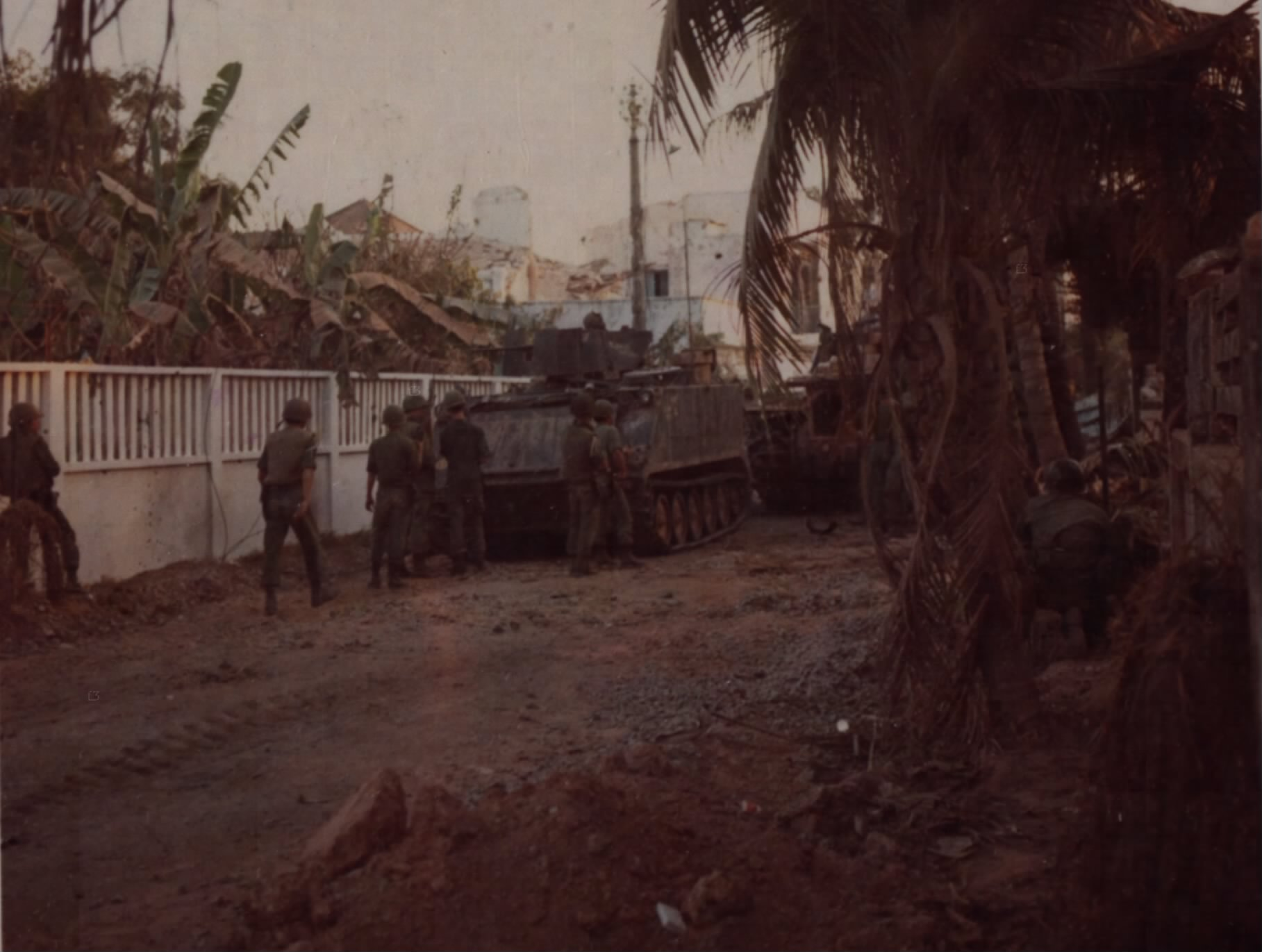 Members of the Reaction Force of the Personal Property Branch at Tan Son Nhut Air Base, escorted by a tank and armored personnel carriers, [are] to recover the bodies of RFs who died fighting in the alley adjacent to the Bachelor Officers Quarters #3.